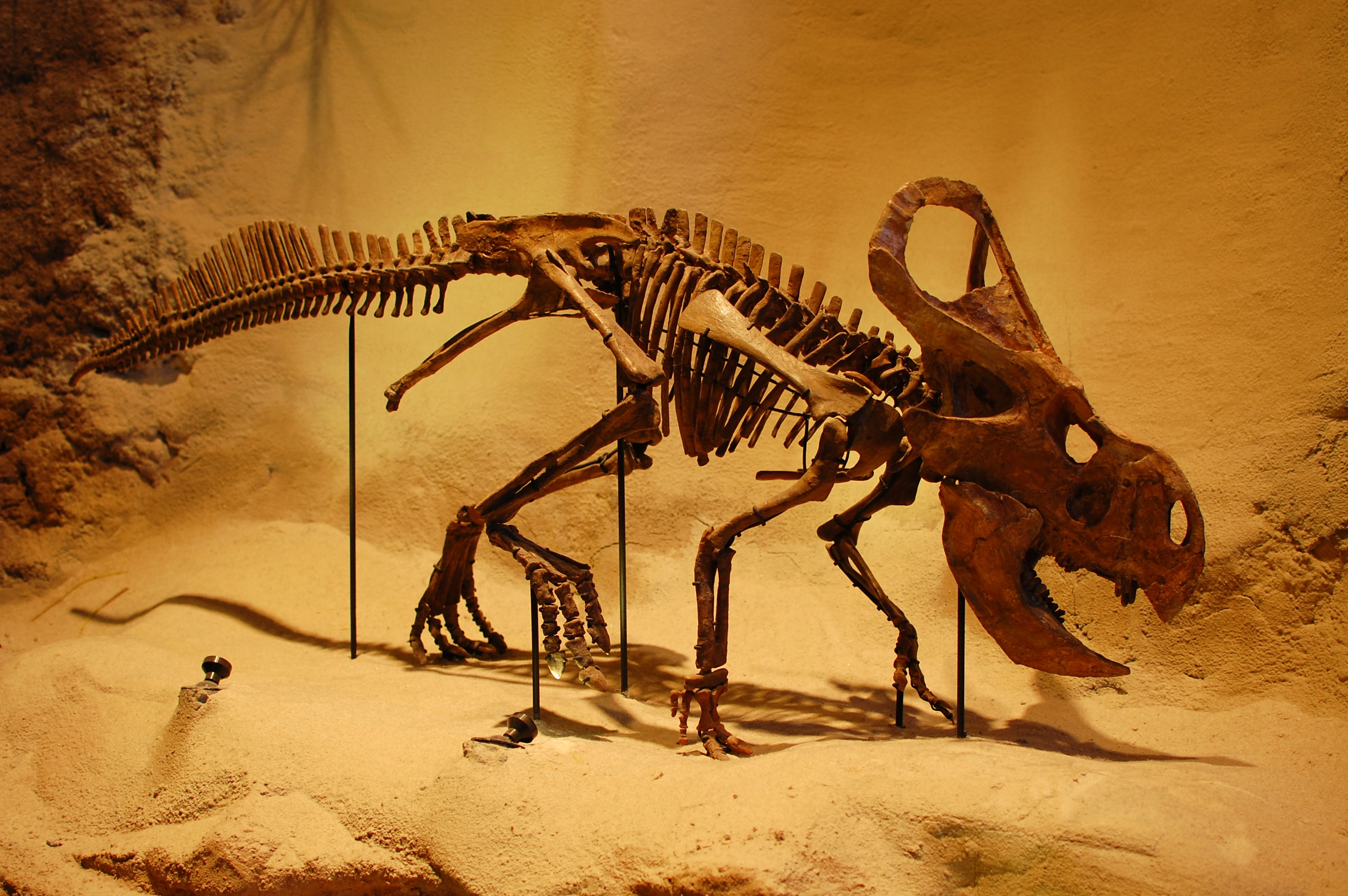 Protoceratops andrewsi skeleton at Carnegie Museum of Natural History.